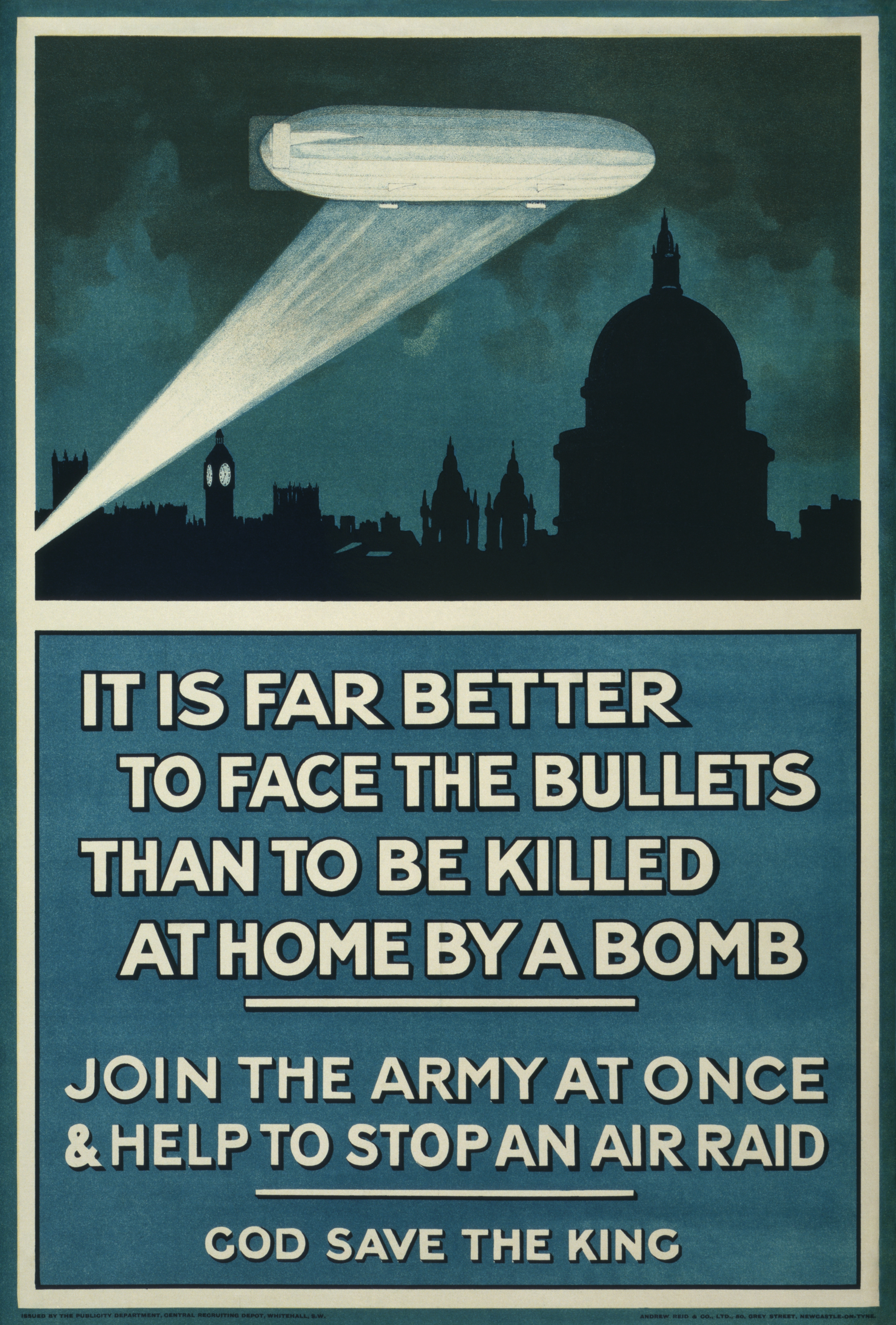 WW I poster - "It is far better to face the bullets than to be killed at home by a bomb. Join the army at once & help to stop an air raid. God save the King".